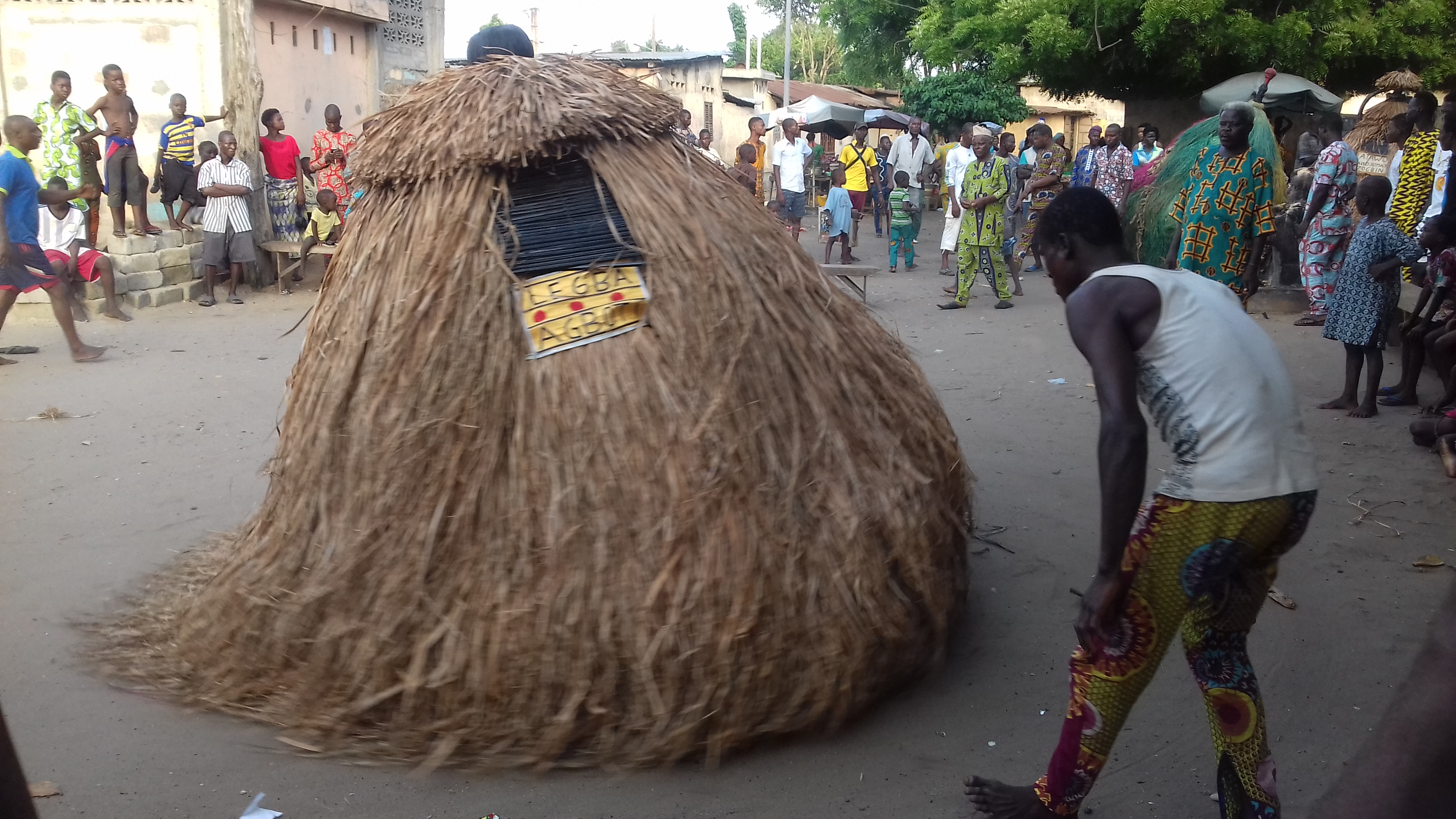 Ritual of Zangbeto in Benin. After the family ceremonies in this community, the Zangbeto ritual still called "Zangbeto Houn" is the last thing to happen. This time, I managed to shop some better moments of this event. It was in a small market of Godomey Hloulacomey.